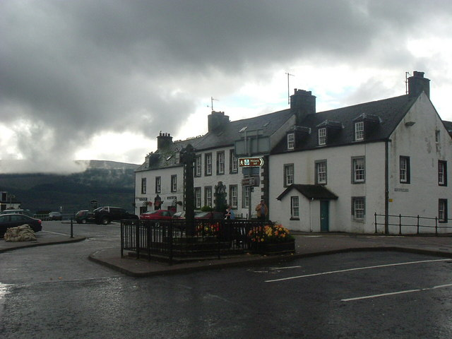 Stone cross, Inveraray Near Pier head.